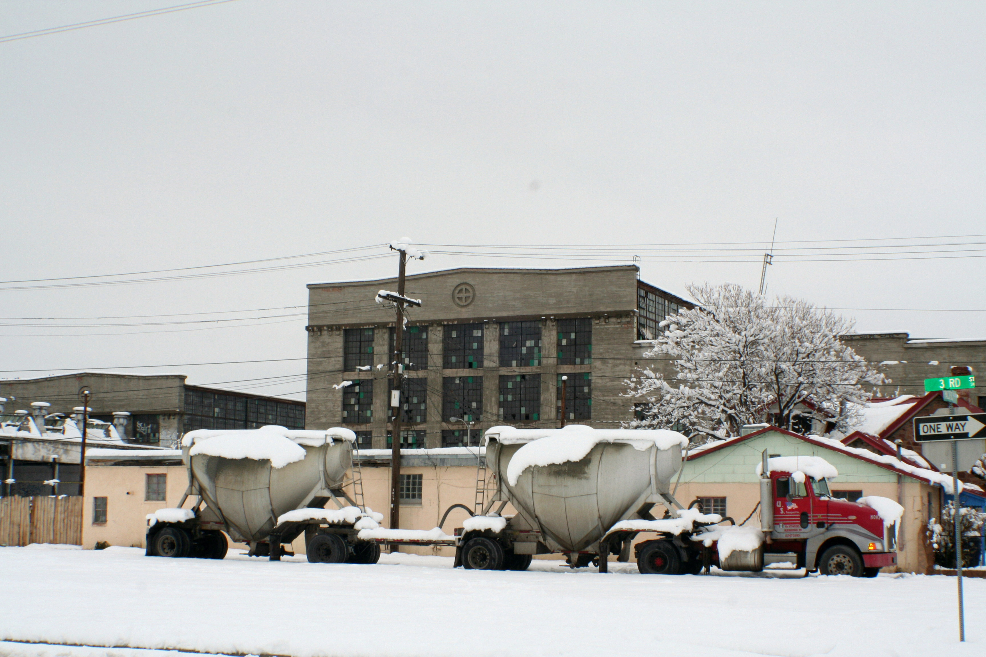 Historic Santa Fe Railroad Shops in Barelas, downtown Albuquerque, New Mexico.